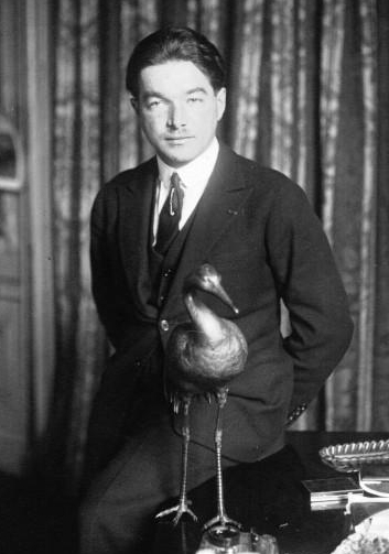 French aviator René Fonck (1894-1953) with a model stork.